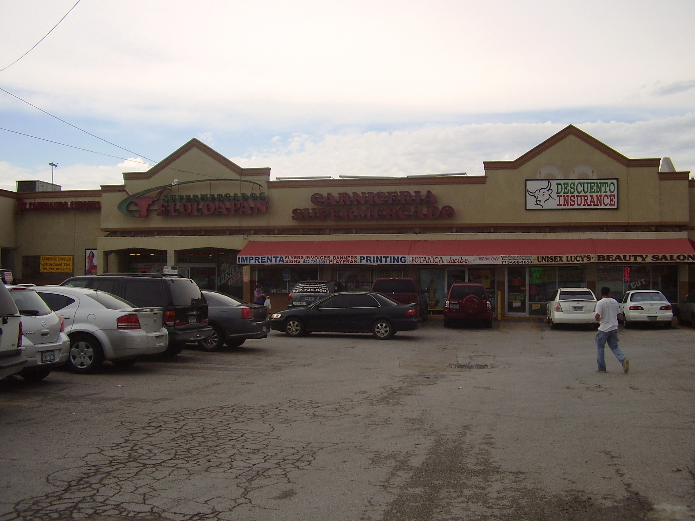 Supermercado Teloloapan #7 ("Teloloapan Supermarket"), a supermarket and meat market - 5330 Chimney Rock Houston, TX. 77081